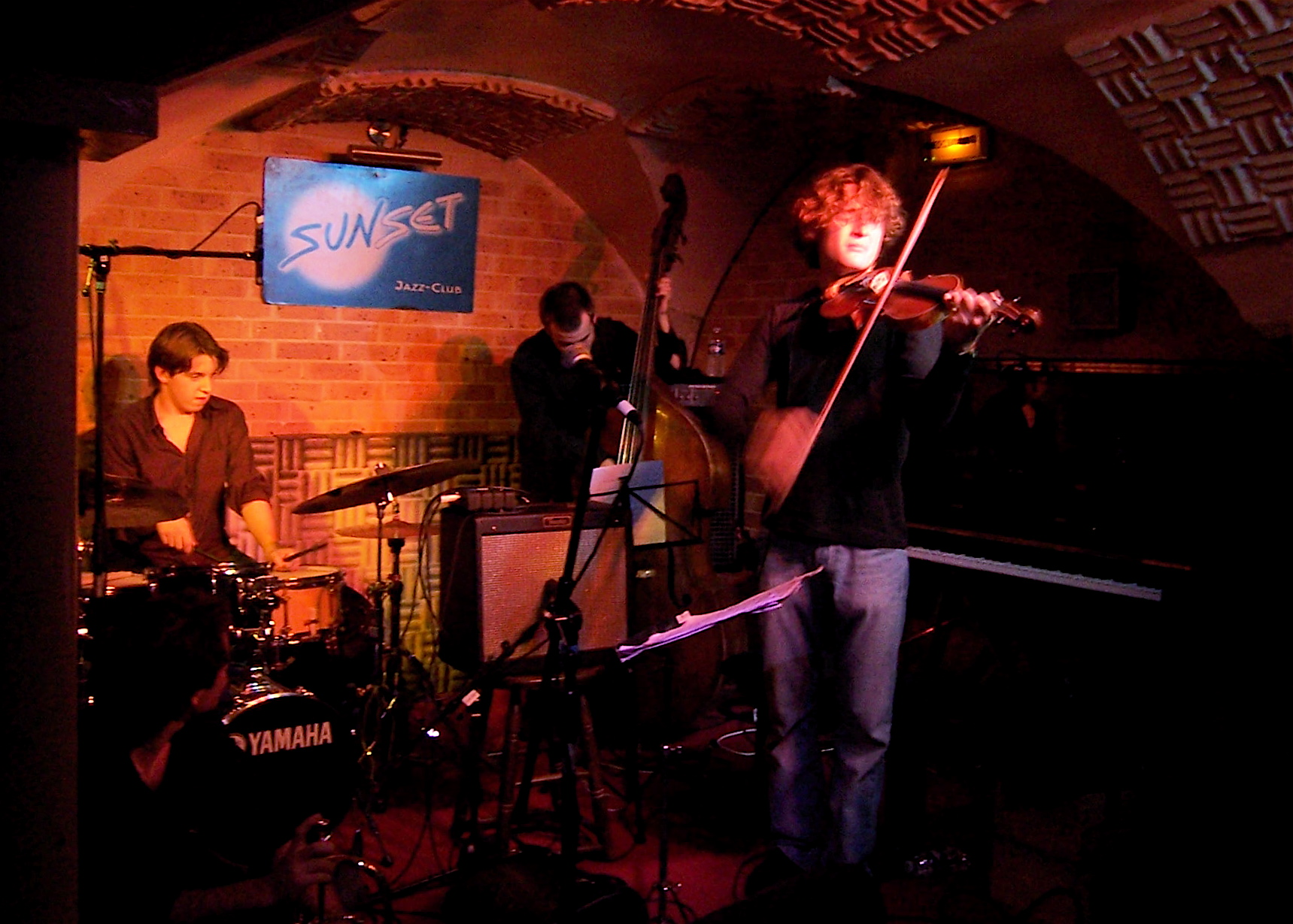 Inside of Jazz club the Sunset-Sunside in Paris